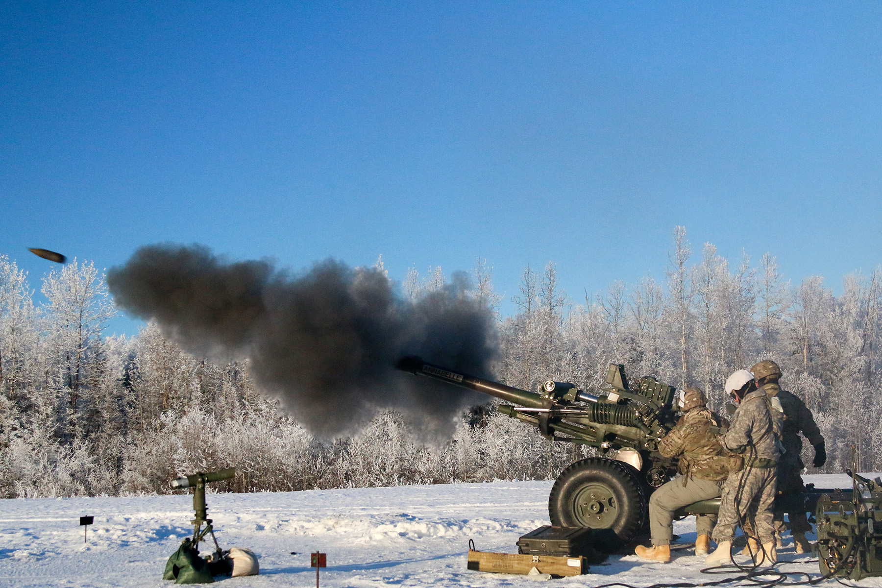 Paratroopers with Alpha Battery, 2nd Battalion, 377th Parachute Field Artillery Regiment, 4th Infantry Brigade Combat Team (Airborne), 25th Infantry Division, fire their M119 Howitzer certifying their capability to shoot accurately in a timely and safe manner, at Joint Base Elmendorf-Richardson, Alaska.